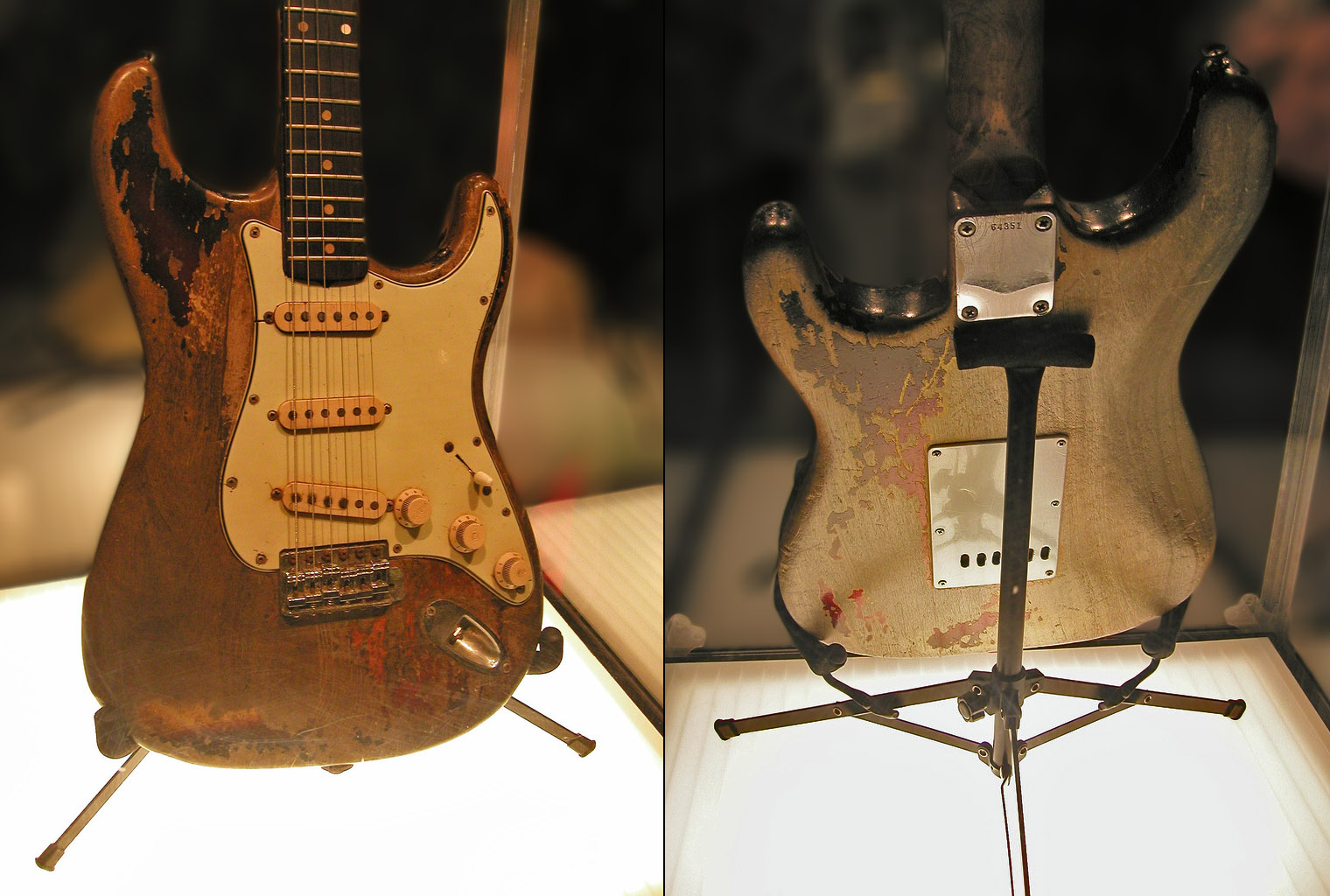 Rory Gallagher's 1961 Stratocaster on display at the 'Rock Chic' exhibition. Held in Collins Barracks Museum, Dublin, Ireland, January 2007